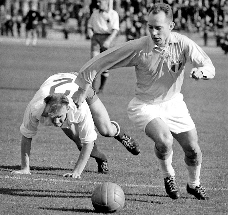 Bertil Nilsson (Malmö FF) and Rune Lind (IFK Norrköping) in an Allsvenskan match 1959